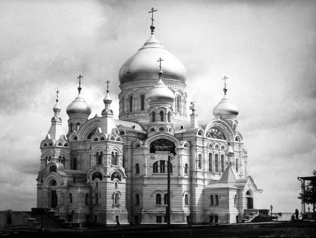 Belogordky Monastery (Perm Kray). Krestovozdvizhensky Cathedral)